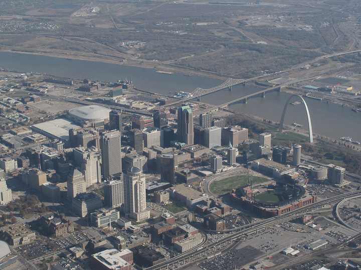 View of downtown St. Louis, including the new Busch Stadium and the Gateway Arch. I took this while sitting in the window seat on the approach to STL airport from ATL.